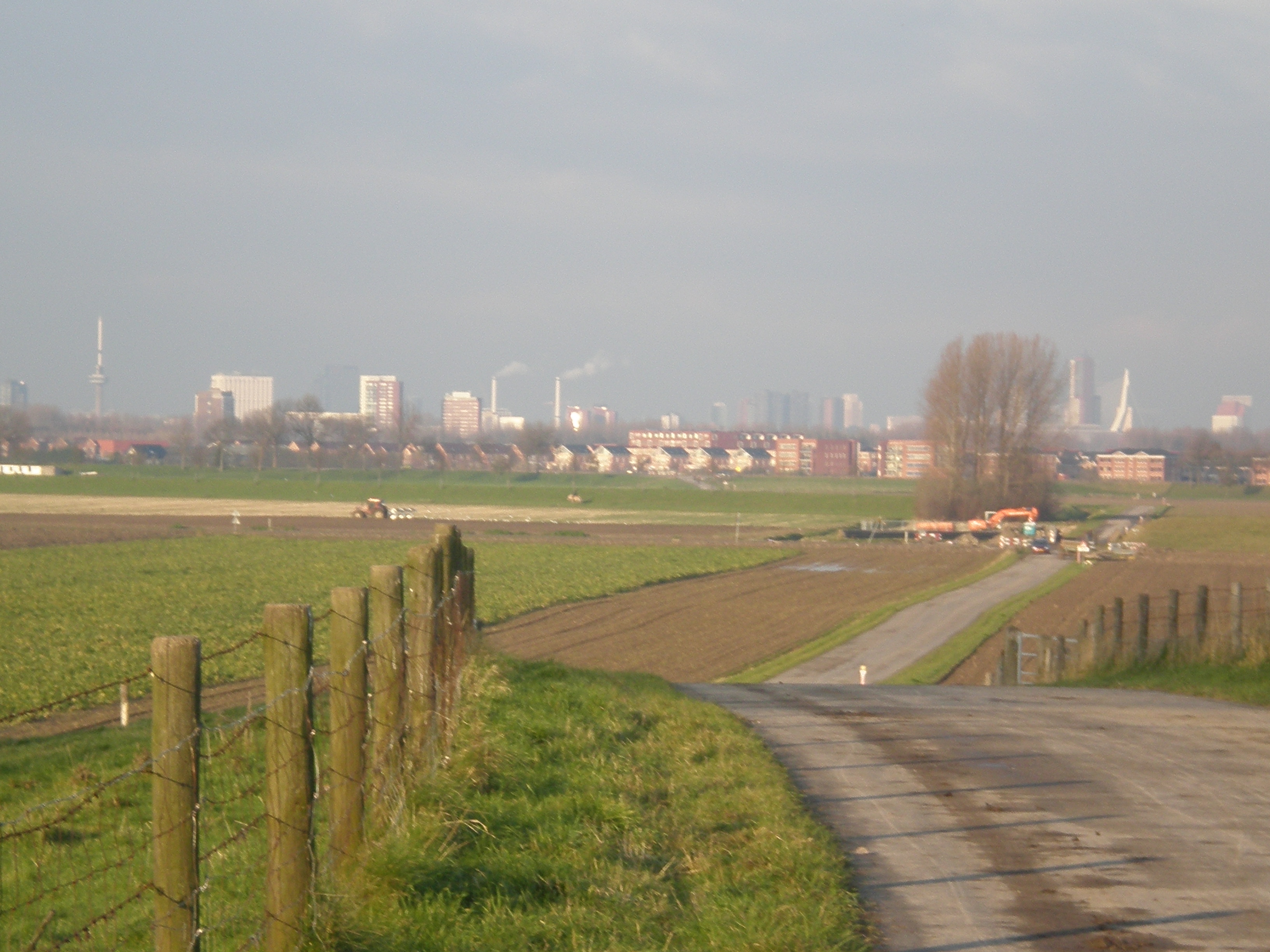 Skyline of Rotterdam seen from the Portland Seadike at the southside of the IJsselmonde Island